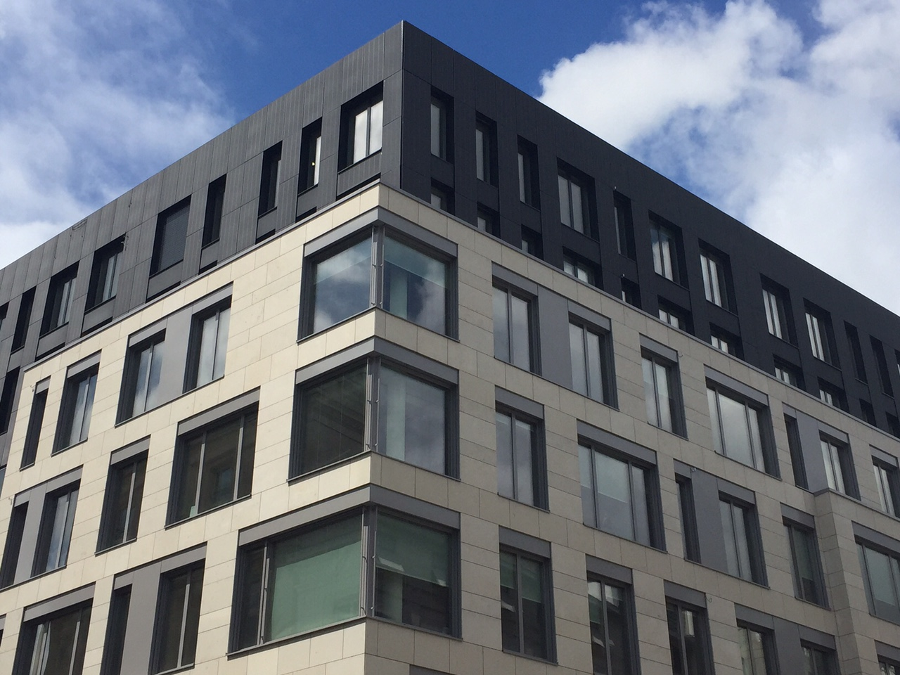 22 Treurenberg, 1049Brussels